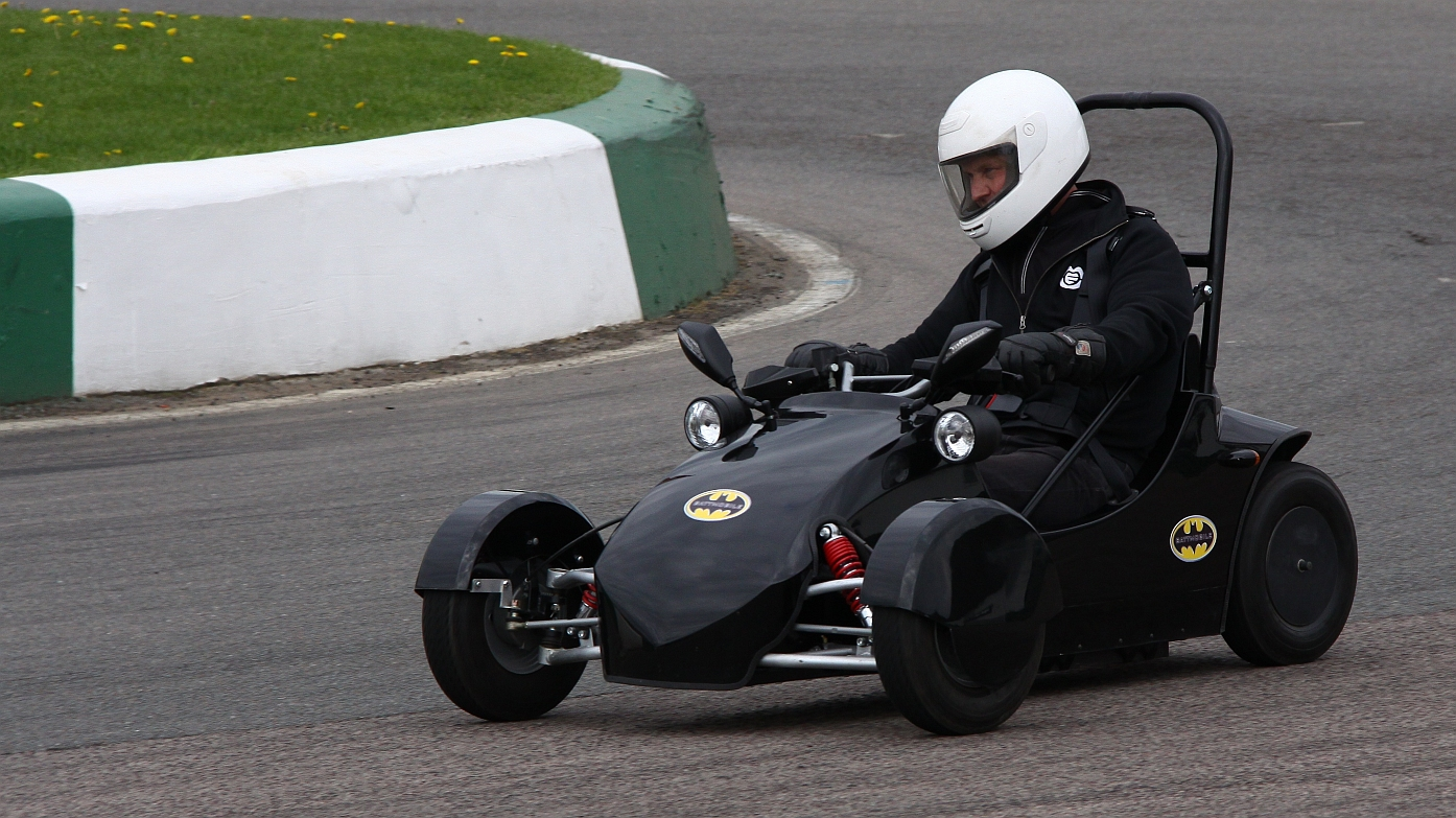 Etrike being driven by Stuart Mills at Mallory Park May 2010